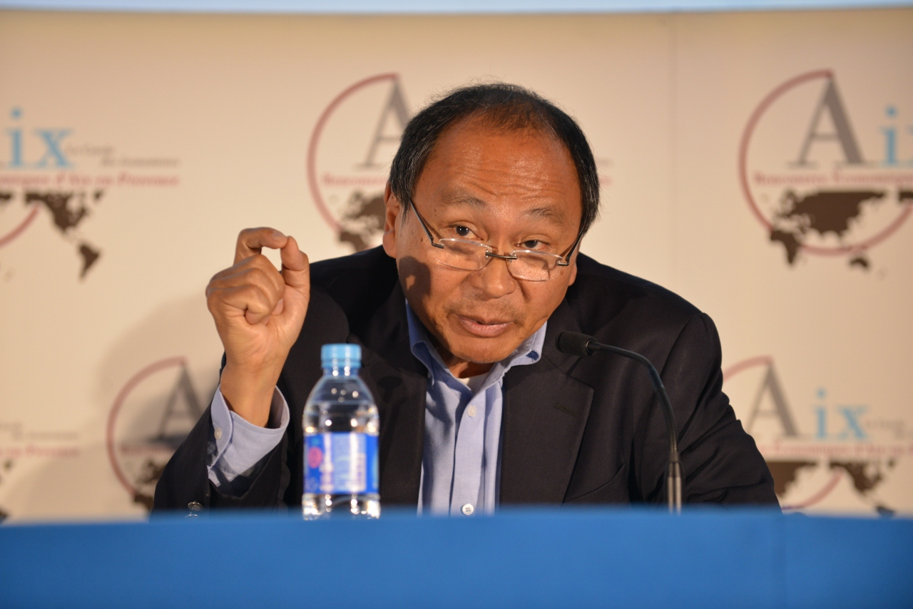 Francis Fukuyama at the opening of Les Rencontres économiques d'Aix-en-Provence 2013